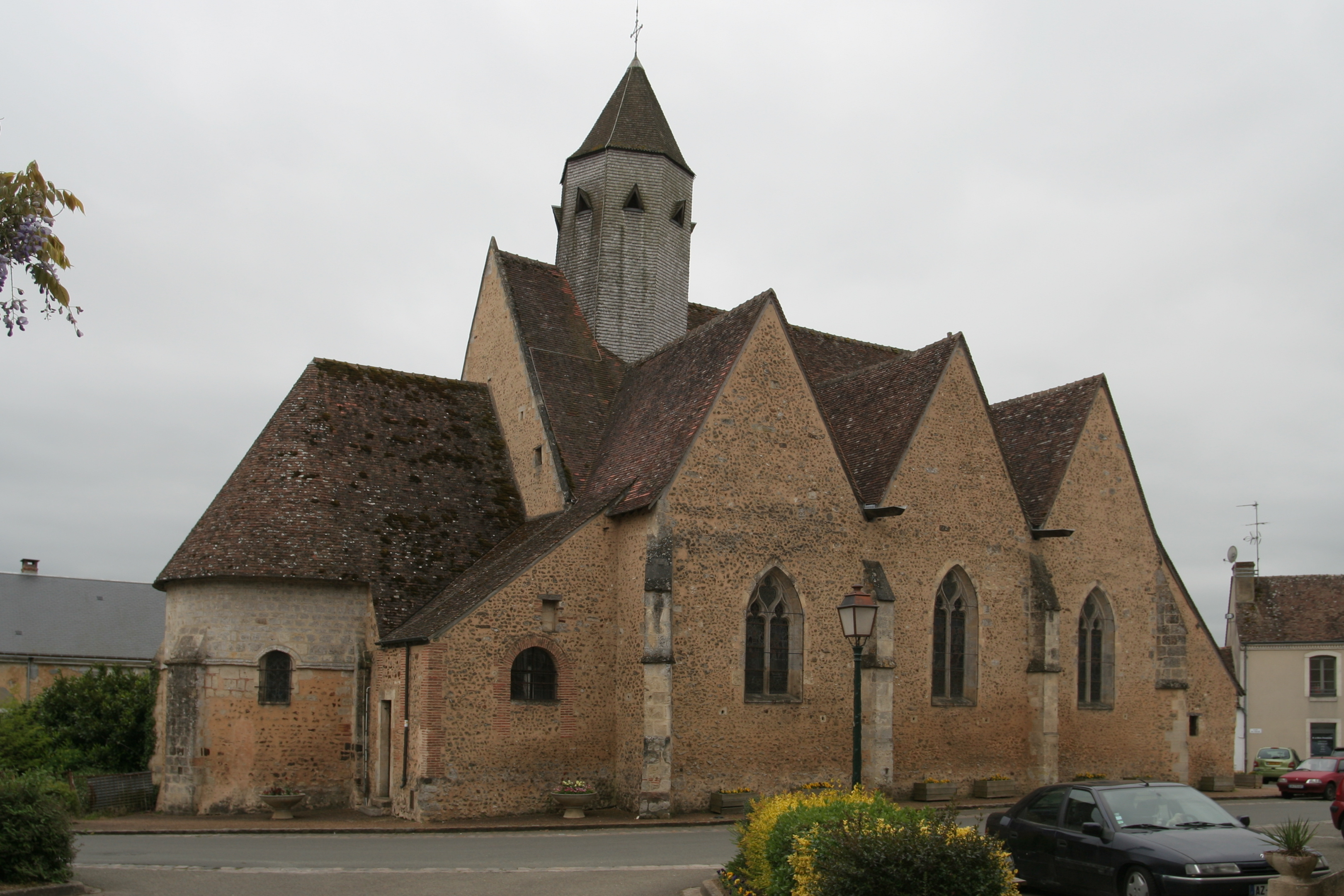 Church of Saint-Aubin-des-Coudrais.